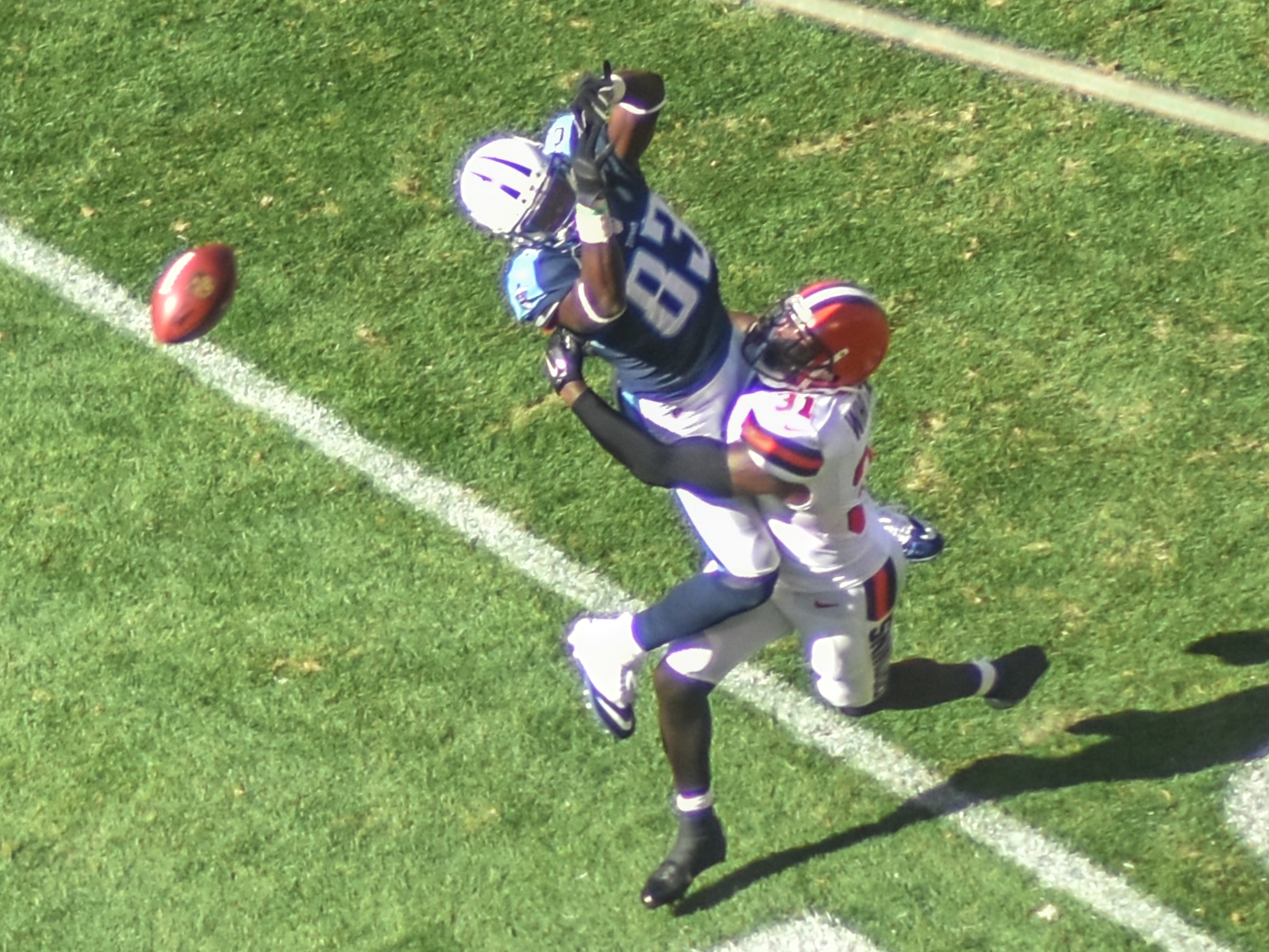 Cleveland Browns vs. Tennessee Titans